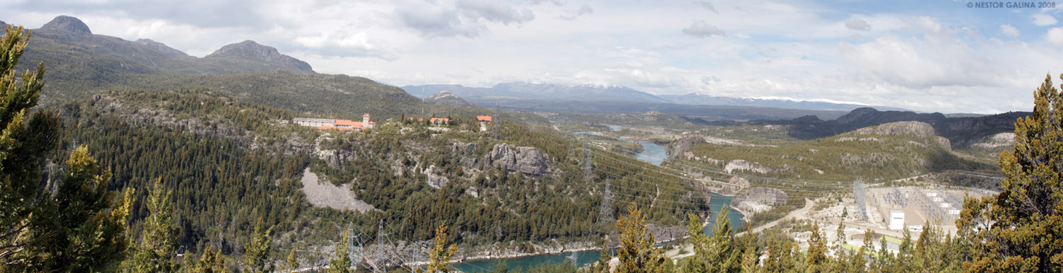 Futaleufu dam